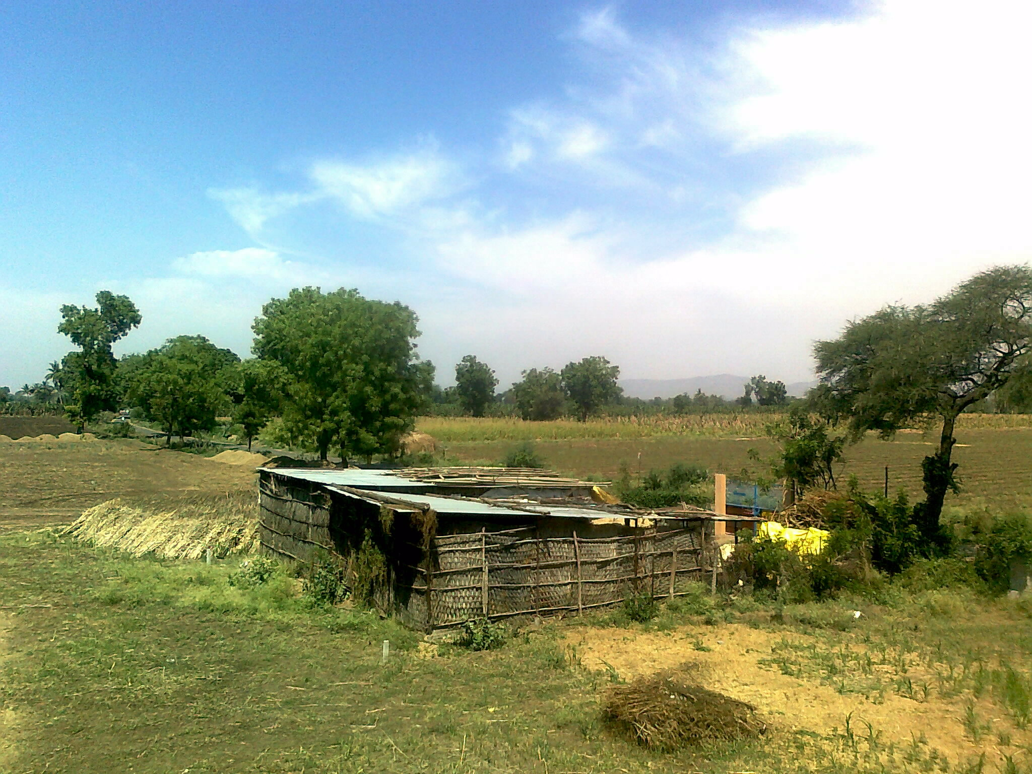 Pic of Hut in farm outside of Chinawal village of Maharashtra, India